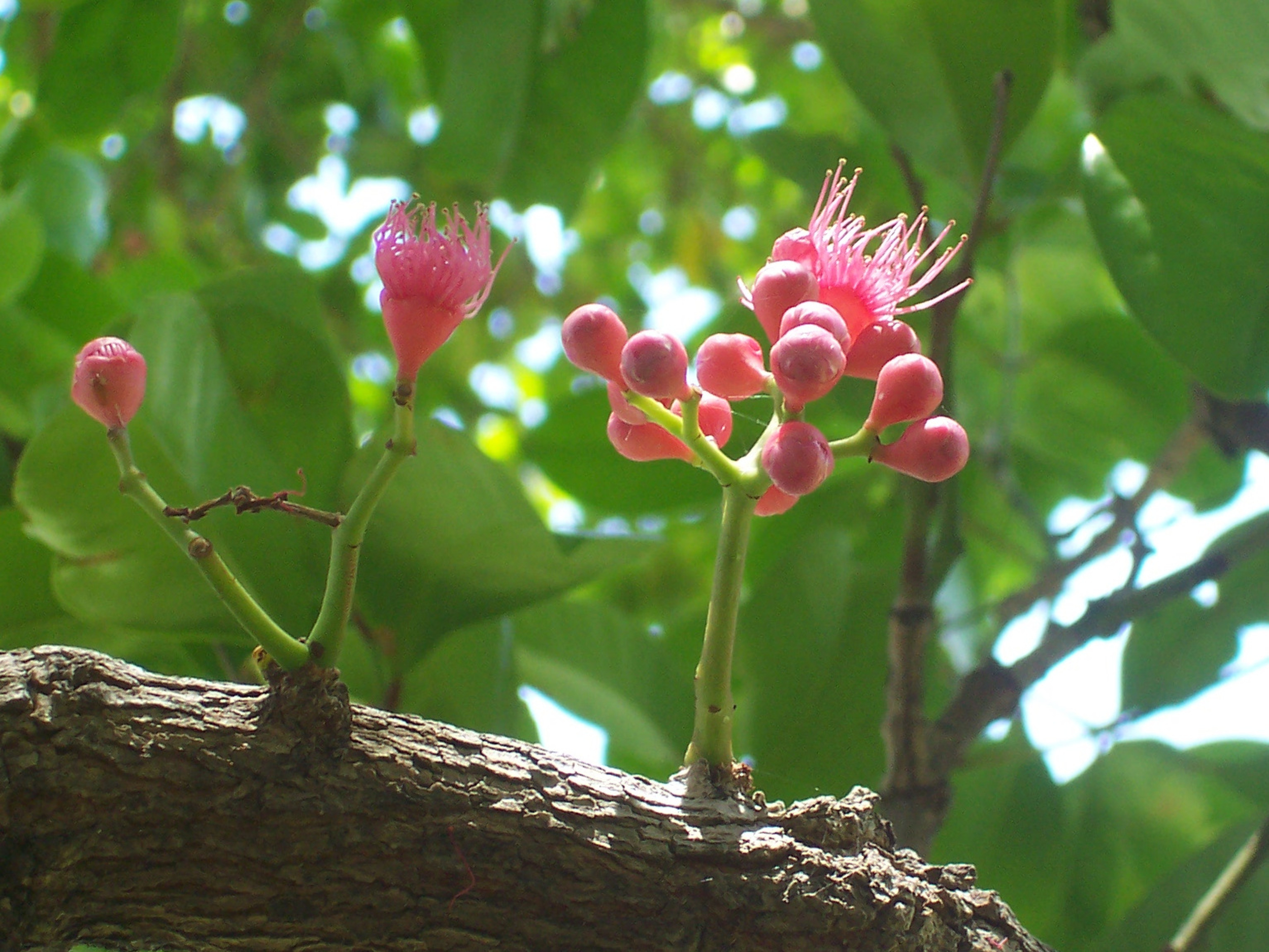 flowering Syzygium moorei, showing flowers developing from the woody stem of the tree (Cauliflory)